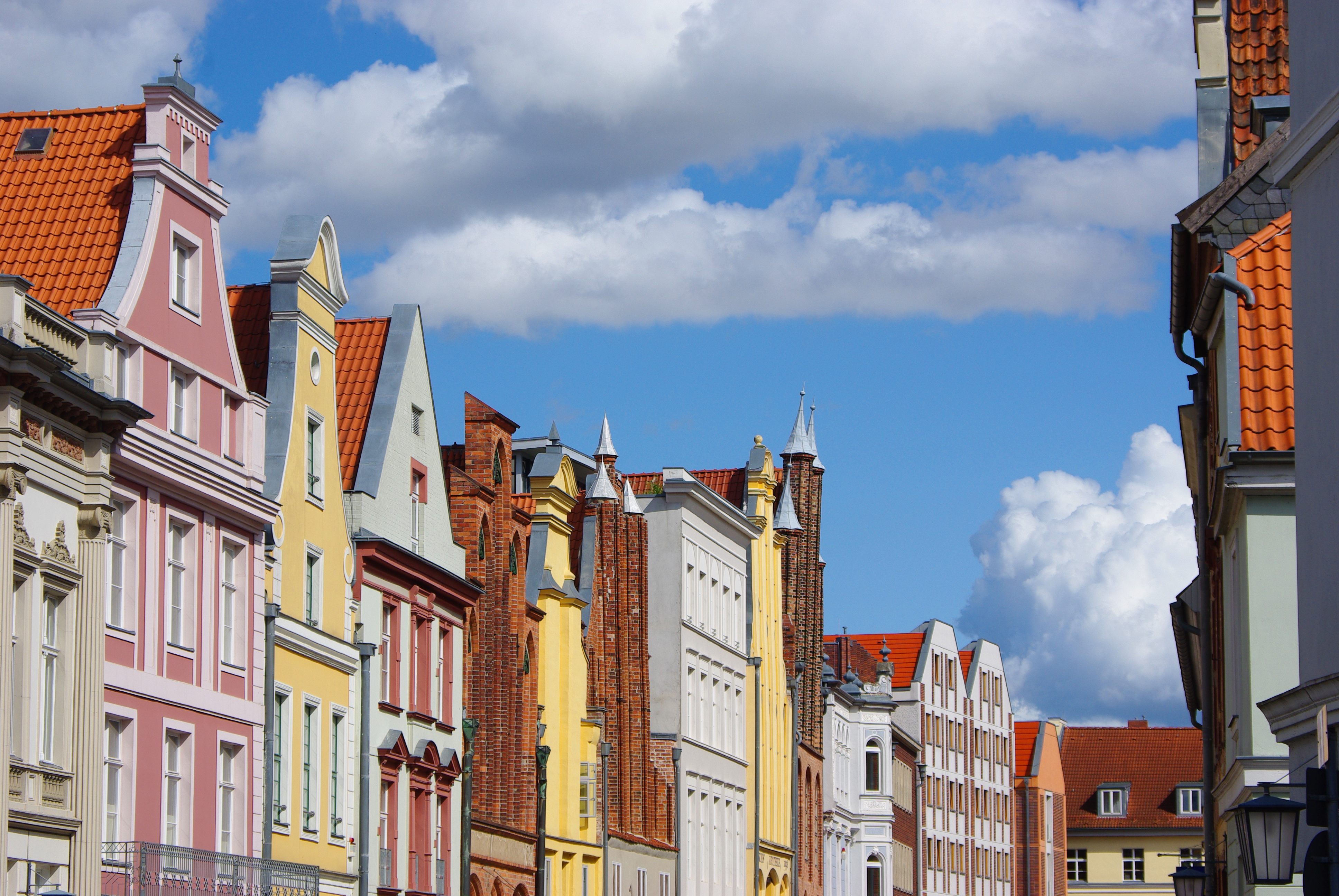 Buildings in the historic center of Stralsund